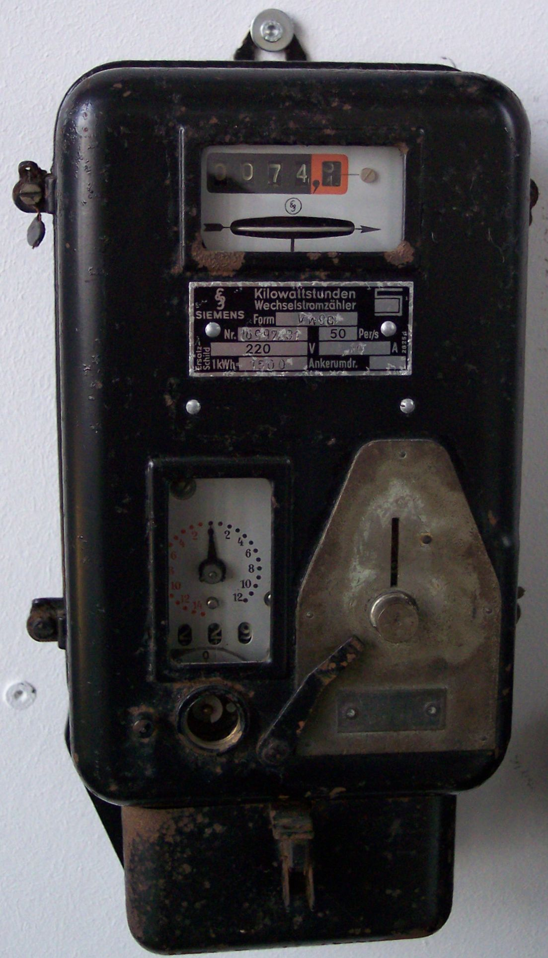 Prepaid electricity meter